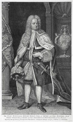 Engraved portrait of Edward Harley